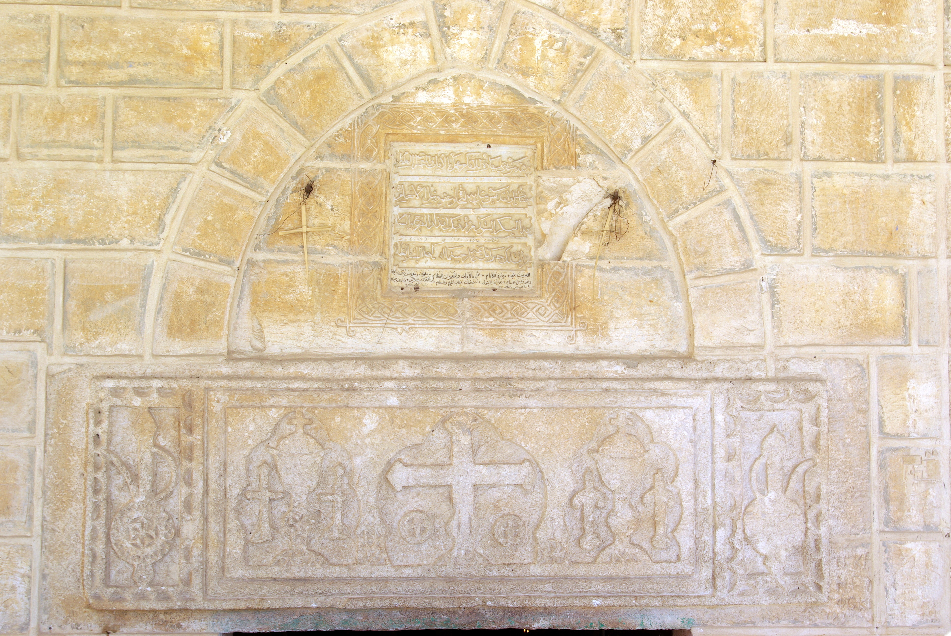 St. Gabriel's Greek Orthodox Church in Nazareth